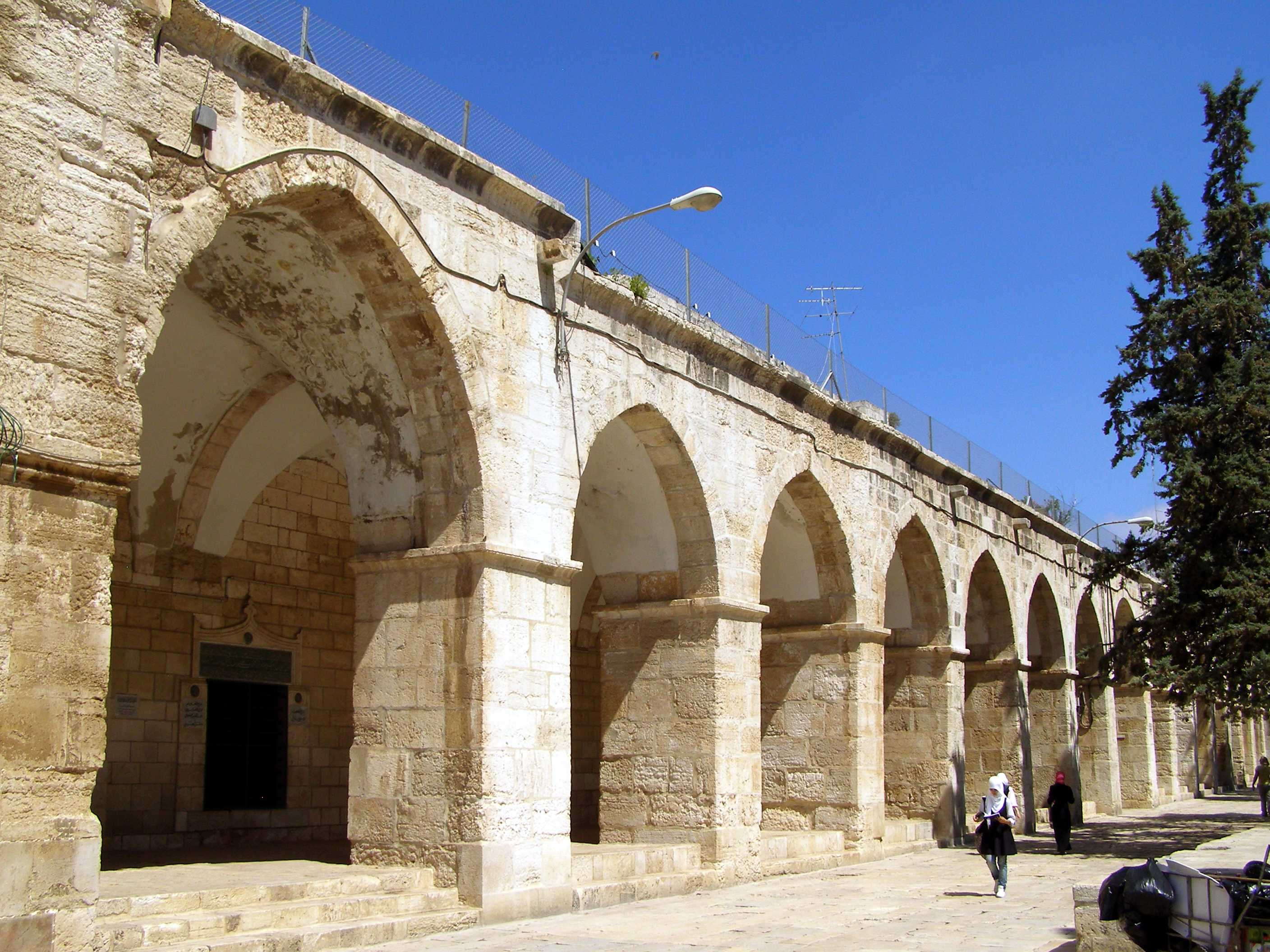 Colonnade in the western wall of the Temple Mount, Jerusalem OLYMPUS DIGITAL CAMERA